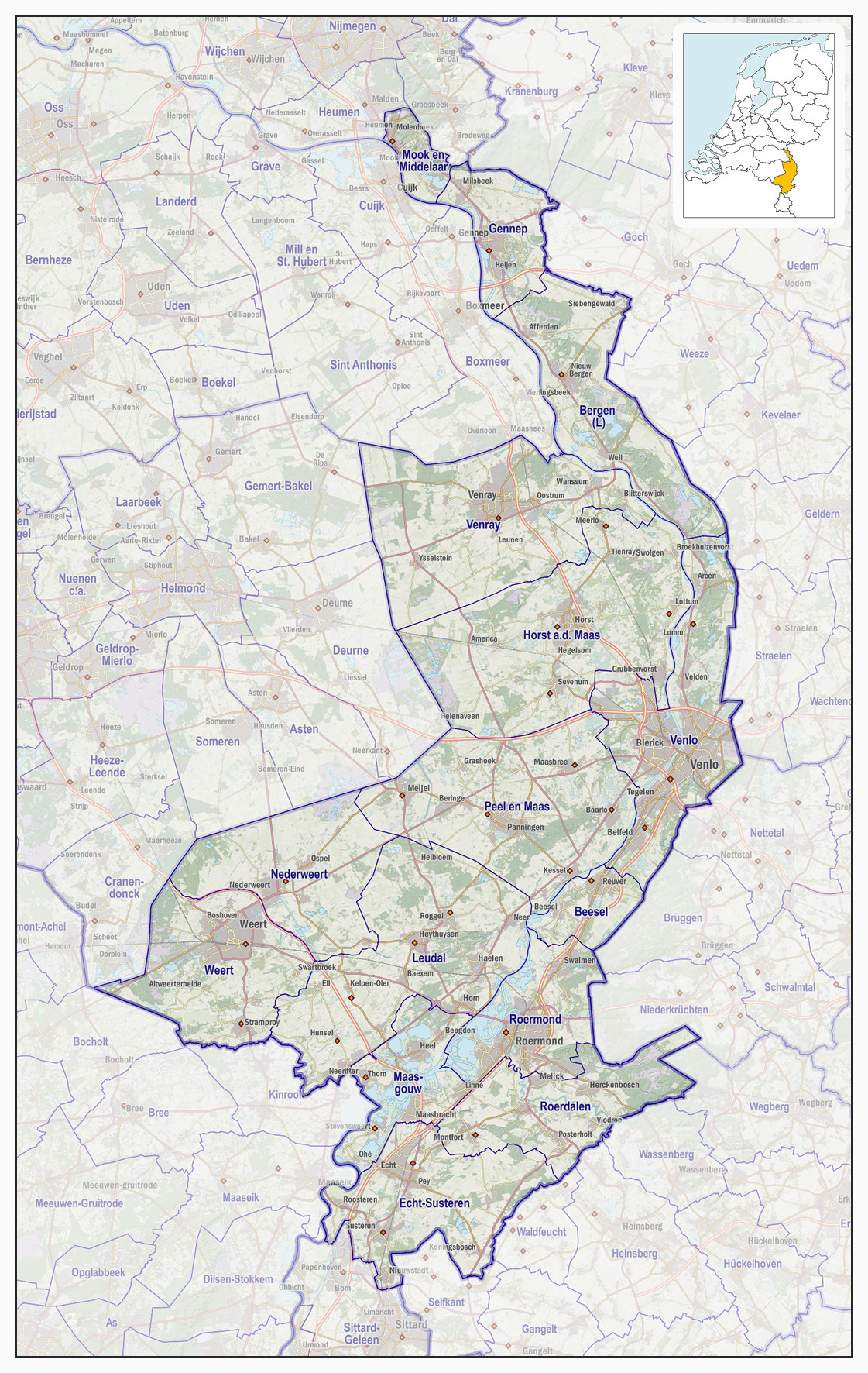 Map of the Dutch Safety Region, with an impression of the terrain and the municipal borders as of 1-1-2017.